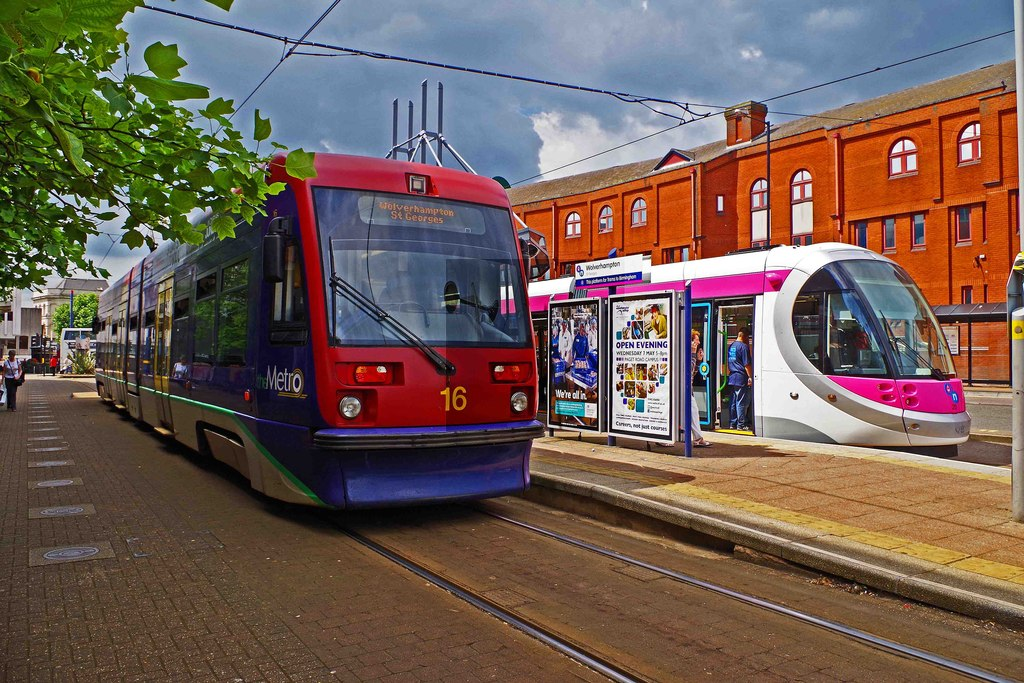 Ansaldo type T-69 Tram no. 16 is still in the original livery. Tram no. 20 is a new CAF Urbos 3 type which was on public display here for a few hours. It is in the current "magenta and silver" livery.